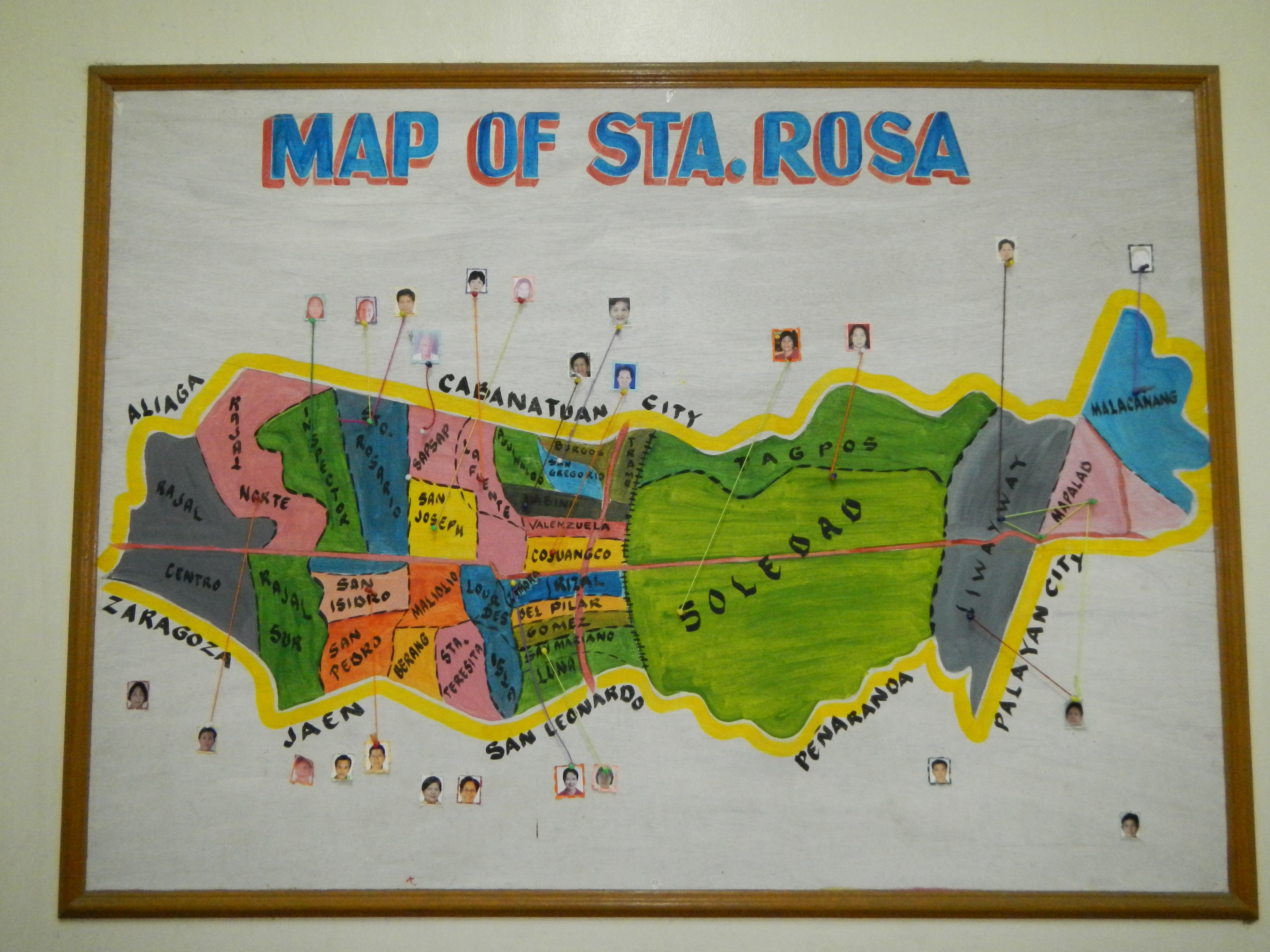 1879 St. Rose Of Lima Parish Church, Sta Rosa, Nueva Ecija - Vicariate of St. Rose of Lima, Vicar Forane: Fr. Rommel B. Javaluyas Sta. Rosa (F-1879), 3101 Nueva Ecija; Tel./Fax: 311-1865 Titular: St. Rose of Lima, Aug 23 Parish Priest: Fr. Robert I. dela Cruz[1][2]Rev. Fr. Jacinto L. Beltran (Ecology) Feast August 23 Santa Rosa, Nueva Ecija[3]